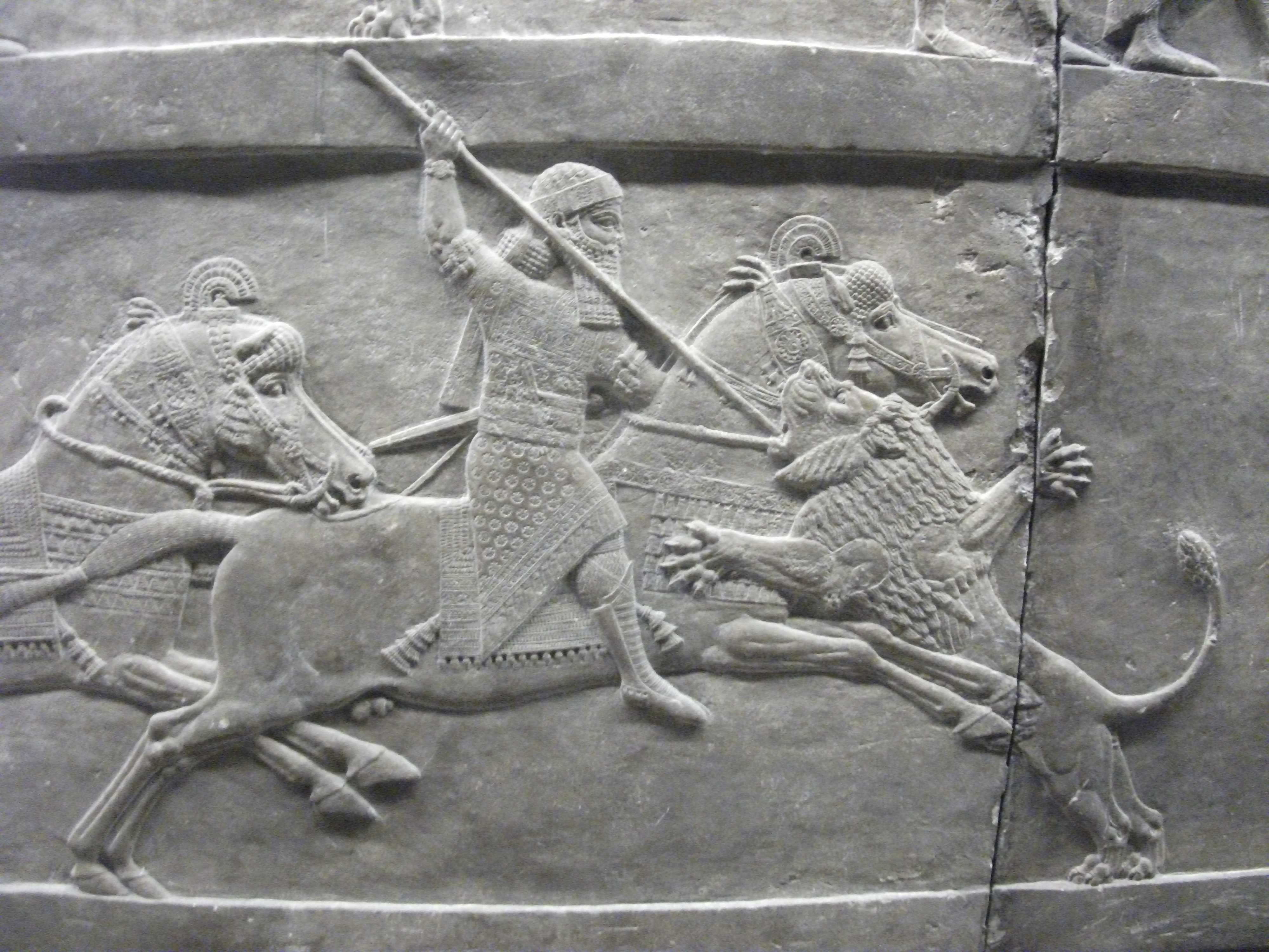 Lion Hunt of Ashurbanipal, British Museum, Room 10a